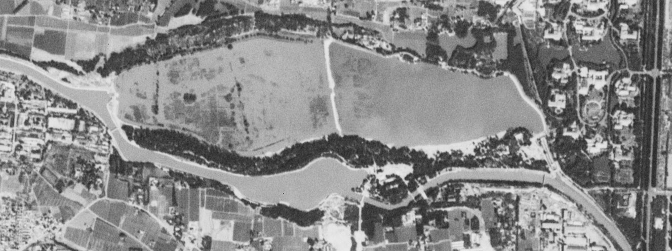 Bayi Lake. Spatial tentatively corrected. 中文（中国大陆）: 八一湖。空间上尝试性矫正过。